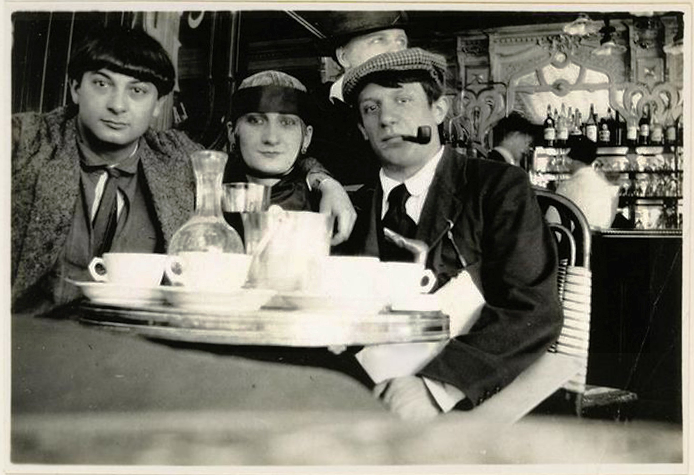 Pablo Picasso, Moïse Kisling and Paquerette enjoying themselves at café La Rotonde, 105 Boulevard du Montparnasse, August 1916